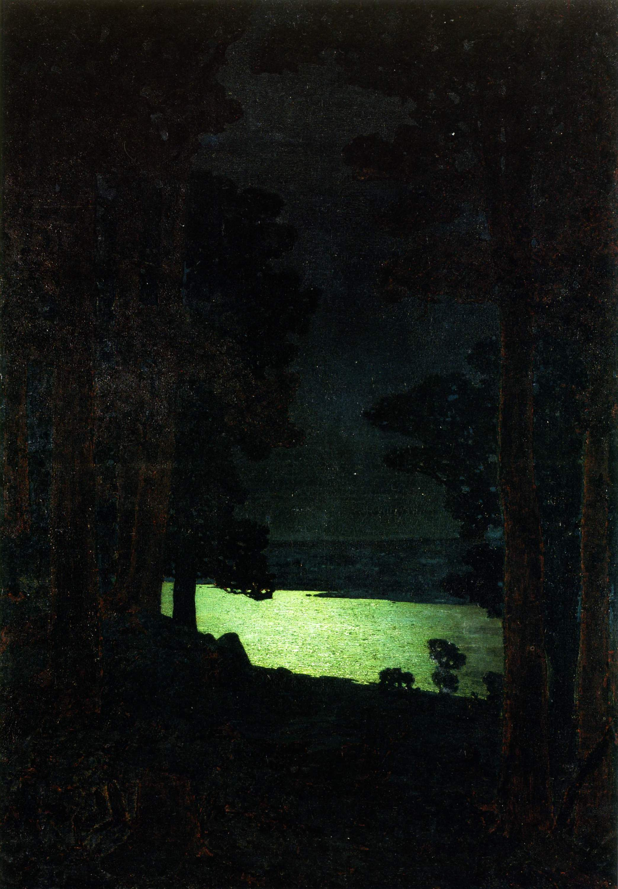 Night at the Don (painting by Arkhip Kuindzhi, 1882, Kiev Museum of Russian Art)